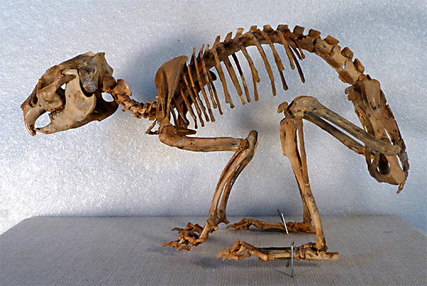 A Prolagus (USNM 167613) from Sardinia mounted for display.